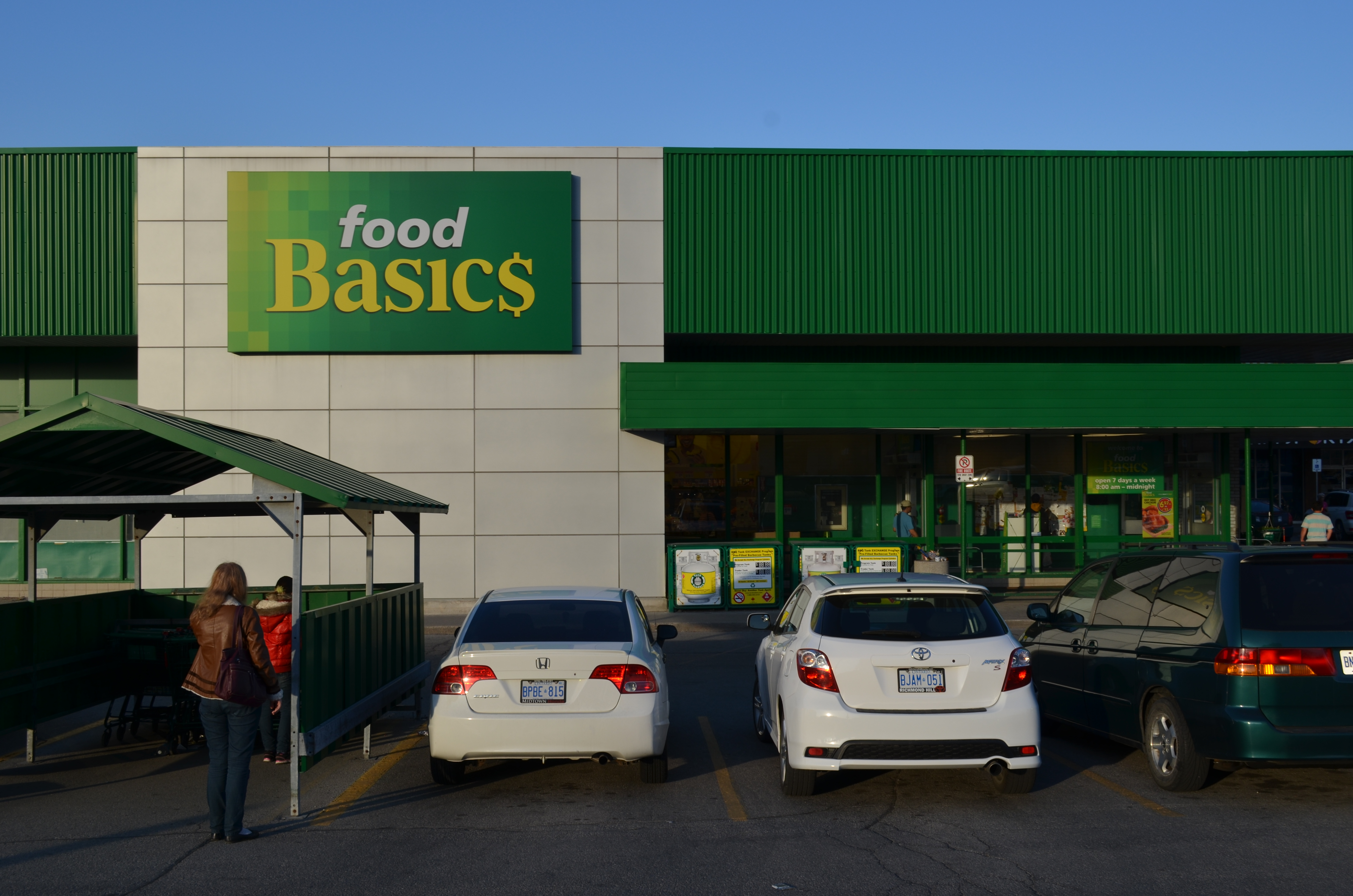 Food Basics, 5915 Yonge Street